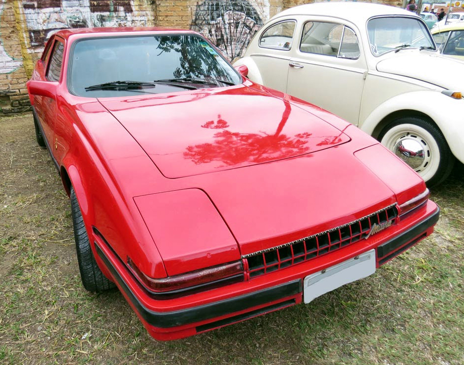 1988 Miura Saga 787, a shortened version of the regular Saga (by 5cm) with a rear hatch featuring a large airfoil